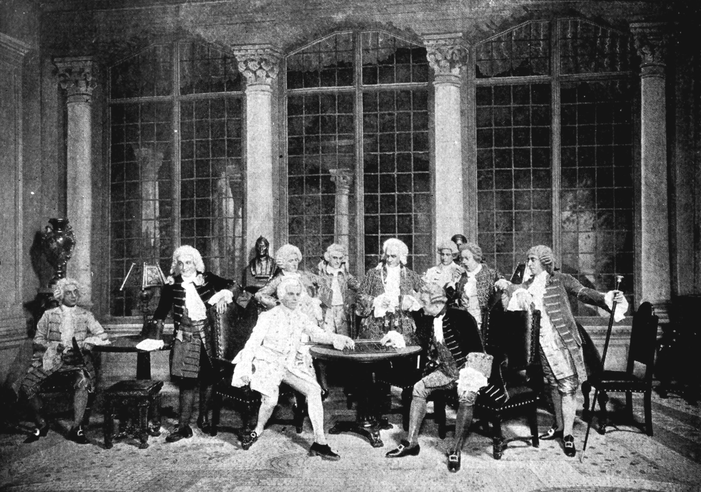 Wolf-Ferrari - Le donne curiose, act I - The club - White Title: The Victrola book of the opera : stories of one hundred and twenty operas with seven-hundred illustrations and descriptions of twelve-hundred Victor opera records Year: 1917 (1910s) Authors: Victor Talking Machine Company Rous, Samuel Holland Subjects: Operas Publisher: Camden, N.J. : Victor Talking Machine Co. Text Appearing Before Image: ELVIRA., LEPOKELLO AND THE DON ACT II 95 Text Appearing After Image: WHI7E DONNE CURIOSE THE CLUB, ACT I (German) DIE NEUGIERIGEN FRAUEN (Italian) LE DONNE CURIOSE (Don-neh Koo-ree-oh-seh) INQUISITIVE WOMEN MUSICAL COMEDY IN THREE ACTS Libretto by Luigi Sugana, after Carlo Goldoni; music by Ermanna Wolf-Ferrari.Produced in Munich November 27, 1903, as Die Neugierigen Frauen. First production inAmerica at the Metropolitan Opera House, New York, January 3, 1912, with Farrar, Jadlow-ker, Scotti, Fornia and Lambert Murphy. Characters OTTAVIO, a rich Venetian Bass BEATRICE, his wife Mezzo-Soprano ROSAURA, his daughter Soprano FLORINDO, betrothed to Rosaura Tenor PANTALONE, a Venetian merchant Buffo-Baritone LELIO, \, . c • j /Baritone LEANDRO, ;hlS fends • • • ; \ Tenor COLOMBINA, Rosauras maid Soprano ELEANORA, wife to Lelio Soprano ARLECCHINO, servant to Pantalone Buffo-Bass Servants, gondoliers, men and women of the populace. Time and Place : Venice ; the middle of the eighteenth century.96 VICTROLA BOOK OF THE OP ER A—INQU IS ITI VE WOMEN KALE